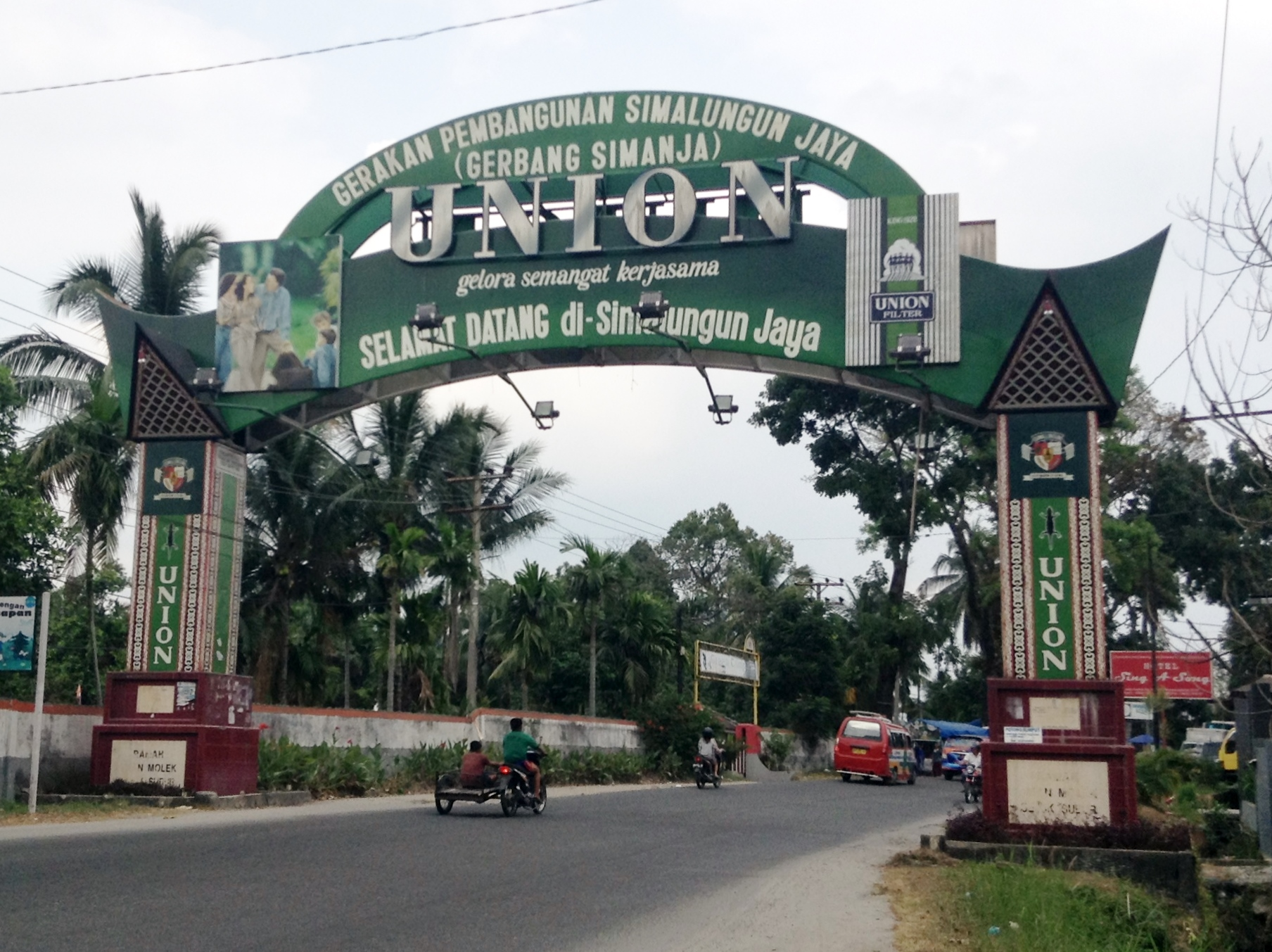 Welcome Gate To Simalungun Regency, North Sumatra, Indonesia